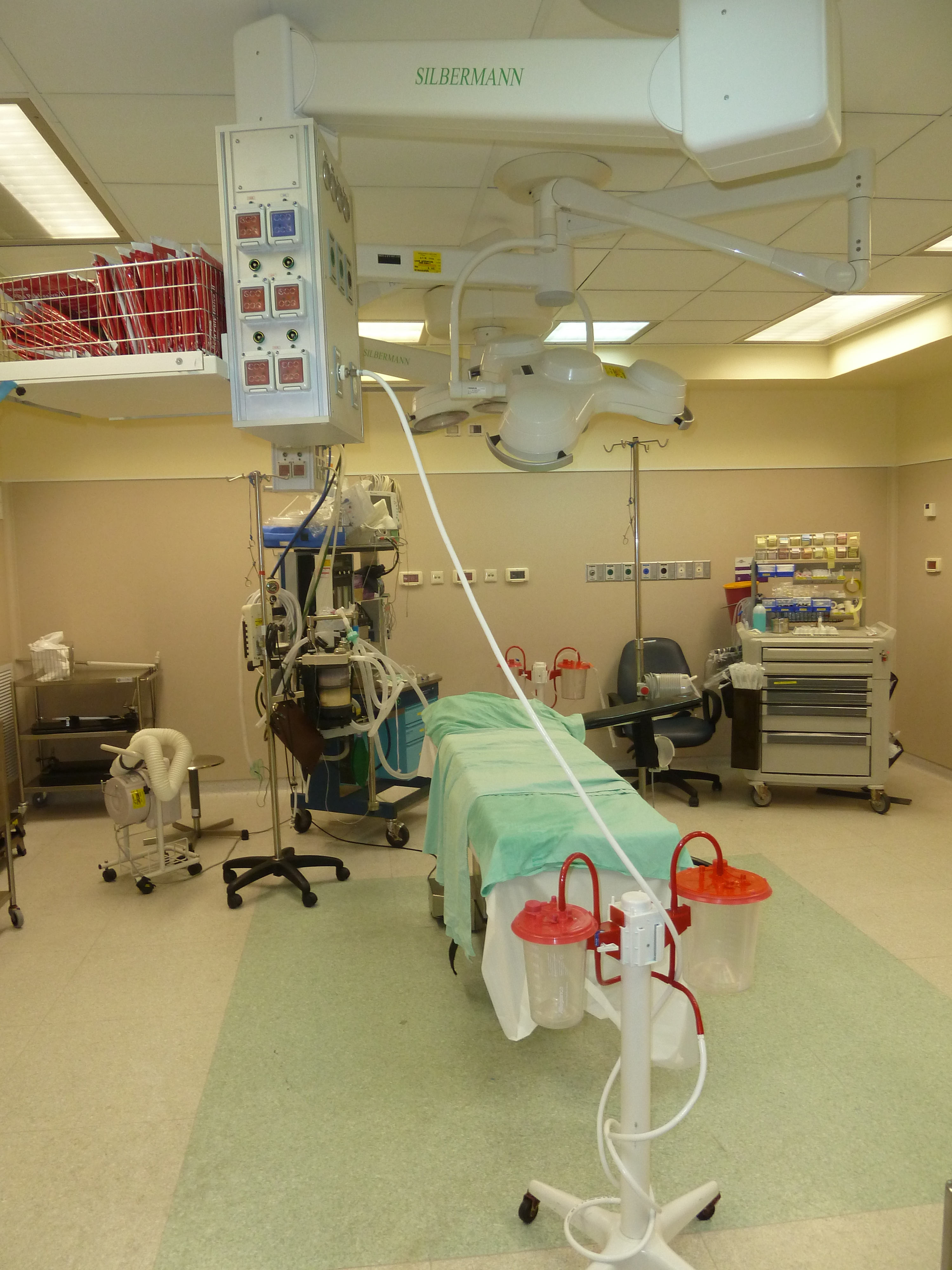 Edith Wolfson Medical Center, Holon, Israel